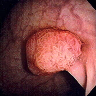 Colon polyp on a short stalk. Attribute to Stephen Holland, M.D., Naperville Gastroenterology, Naperville, IL, USA. Category:Endoscopic images